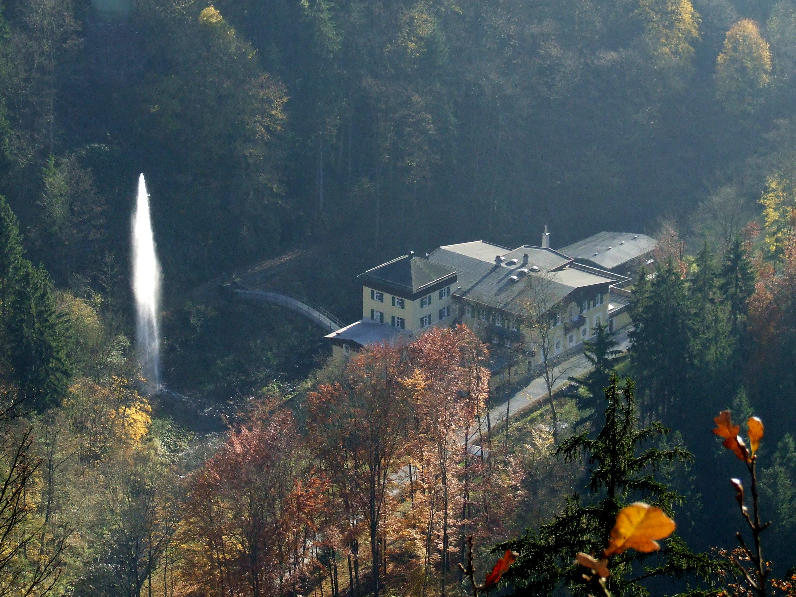 Höllental Power Plant in October 2010